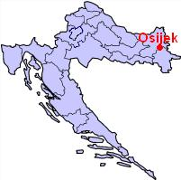 Locator map of Osijek in Croatia.